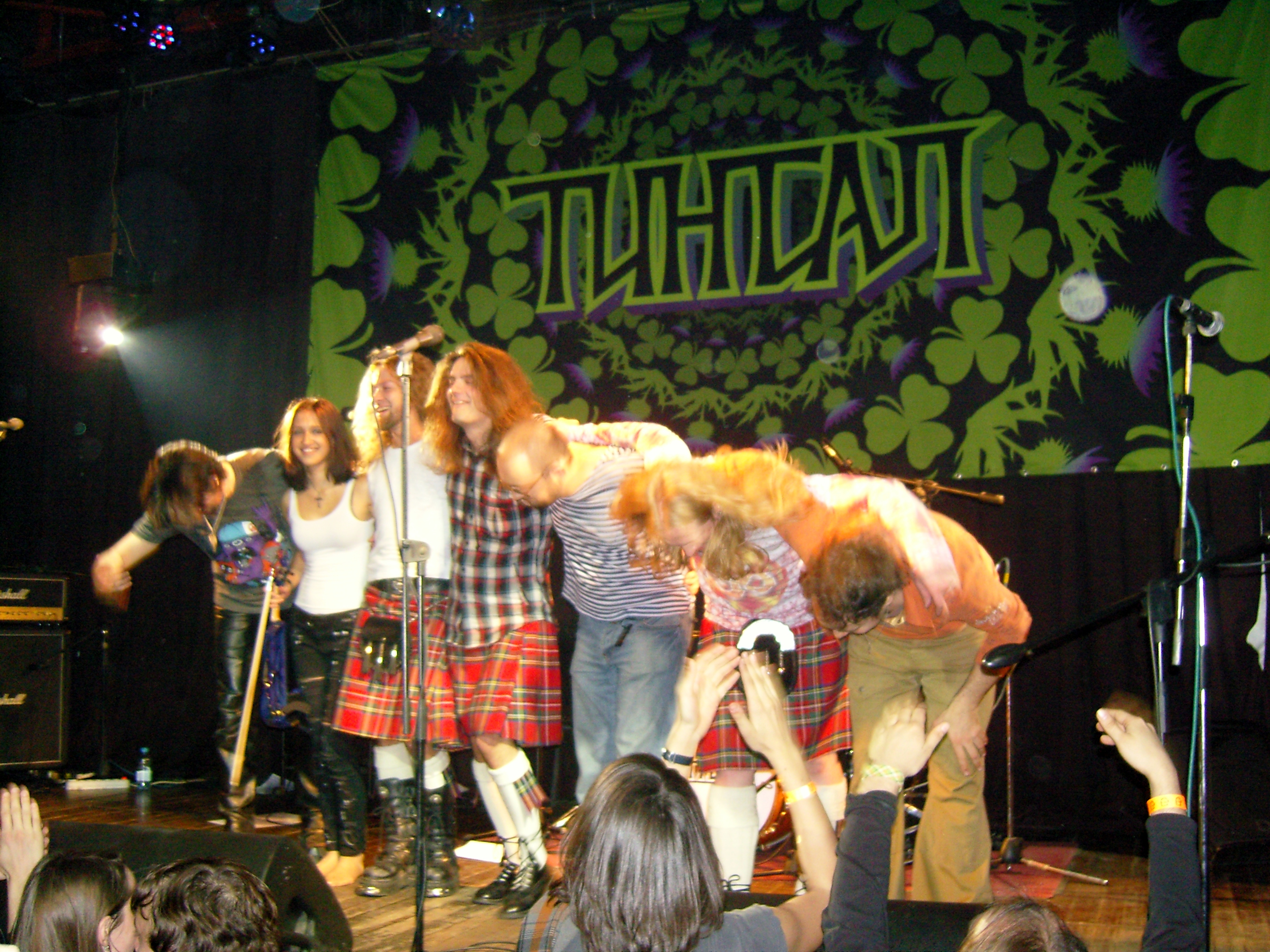 Tintal - St.Patrick`s Day`11